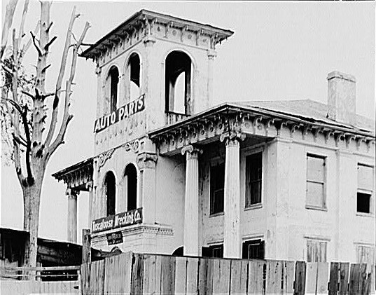 Converted home. Tuscaloosa, Alabama. Taken 1936 by Walker Evans for the Farm Security Administration/Office of War.